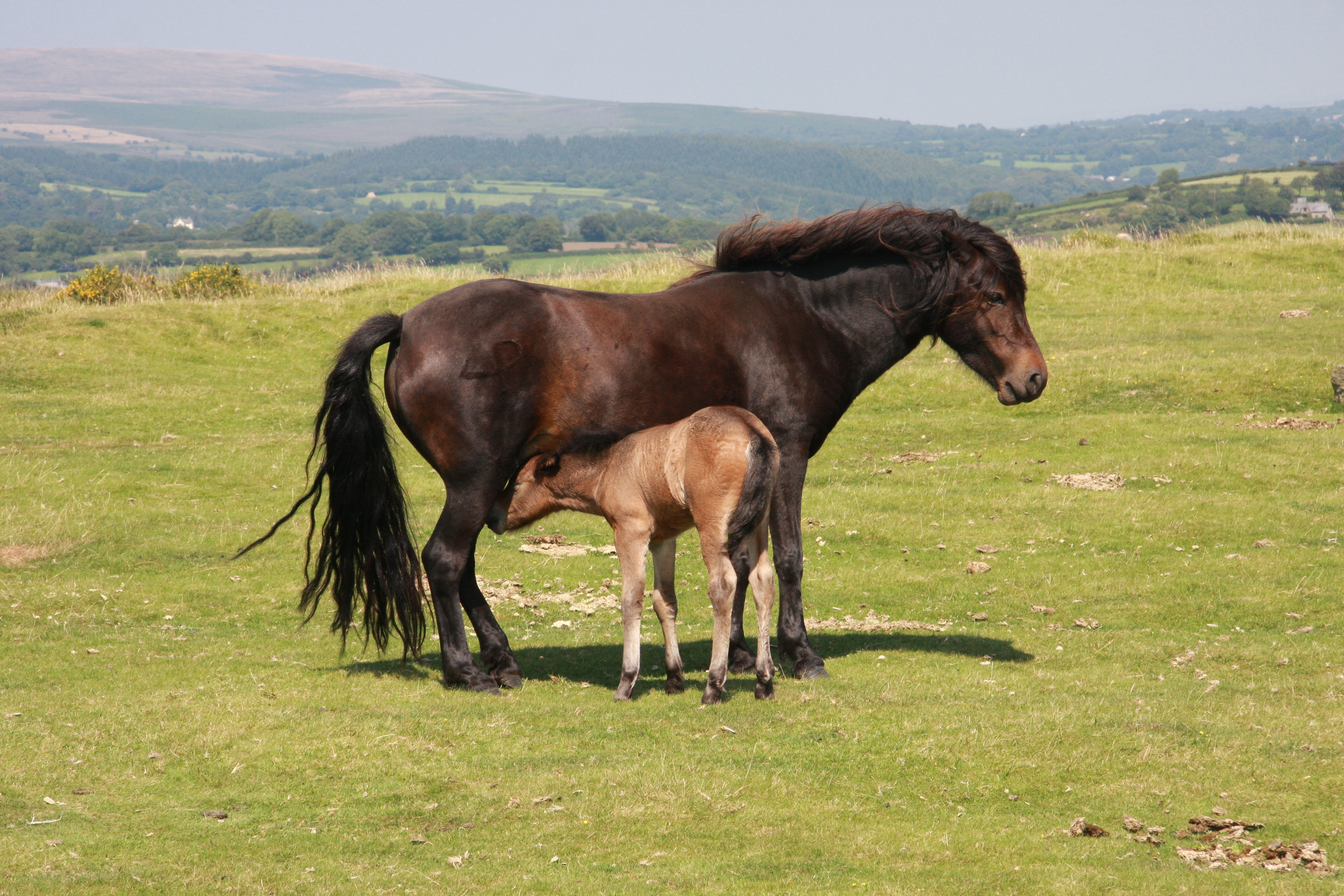 Dartmoor pony mother and foal